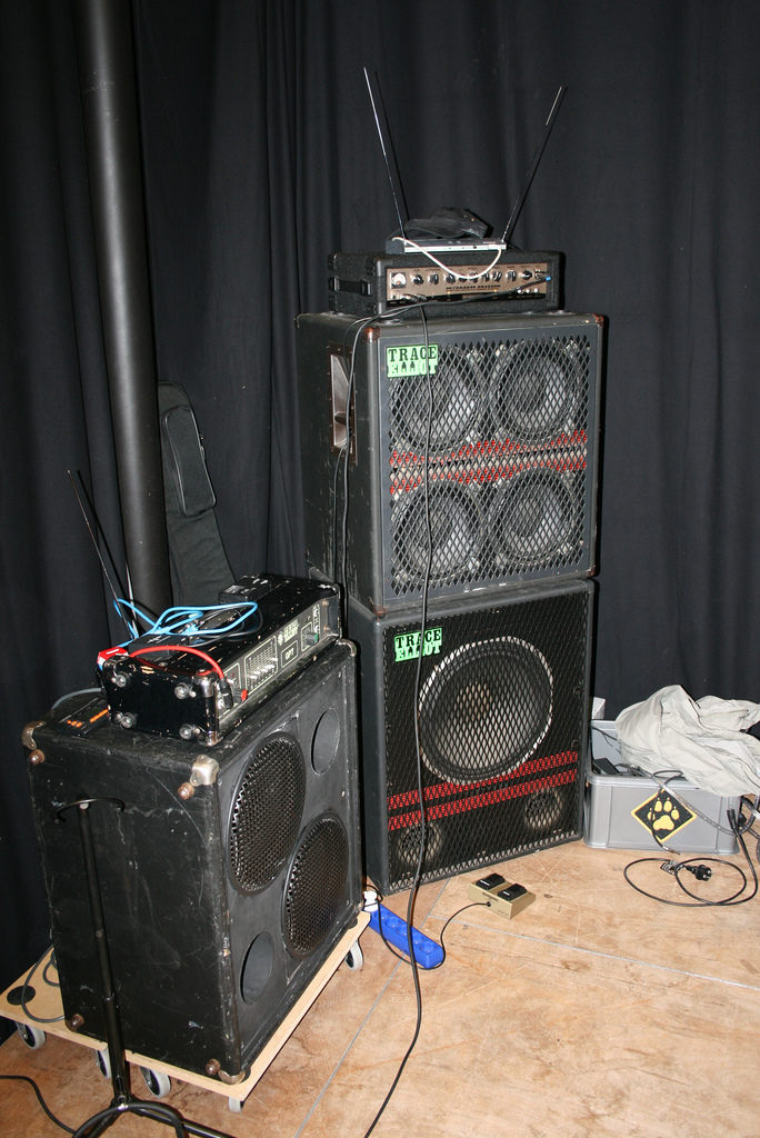 Pilotshop Live @ Kulturwerk Nienburg, Sat 14 June 2008 left tuners, etc. Trace Elliot GP7 7-band Bass Amp Head unknown bass cab. (2×units) right unknown wireless receiver Behringer AX4500H UltraBass Trace Elliot bass cab. (4×units) Trace Elliot bass cab. (1×unit)